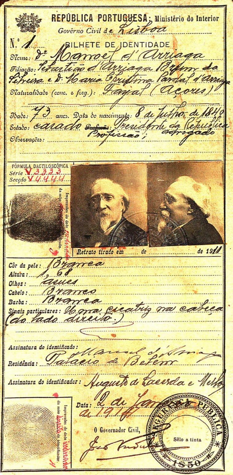 Identity Card of President Manuel de Arriaga, the first ID Card issued in Portugal.